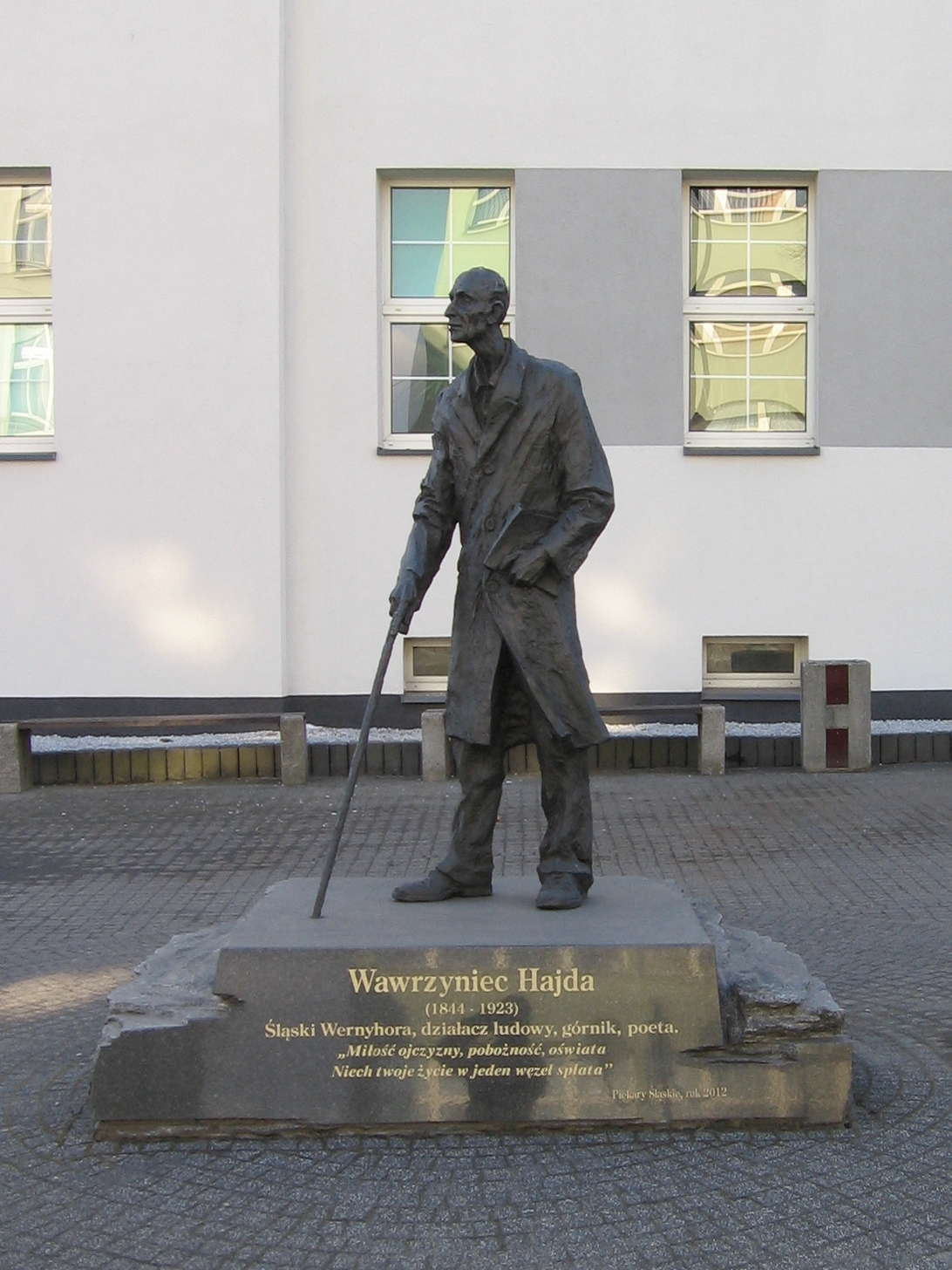 The monument of Wawrzyniec Hajda in Piekary Śląskie-Szarlej, Poland, unveilded in 2012.